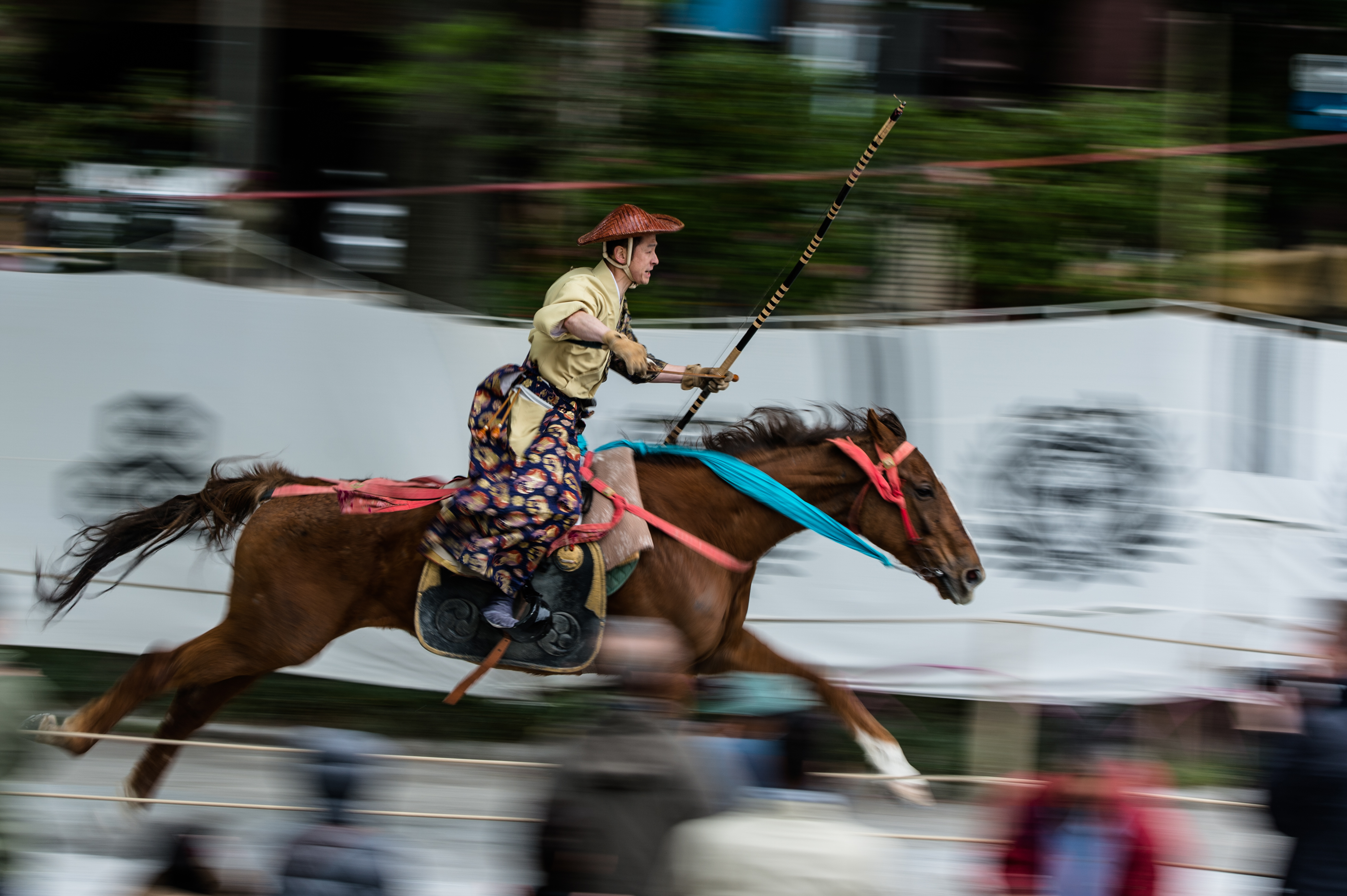 I visited Sumida Park, Asakusa, Tokyo to watch Yabusame performance. In a nutshell, Yabusame is a traditional mounted archery in Japan. It used be a practical battle method for samurai. There are no samurai these days but Yabusame still remains as a performance of special occasions. Actually this is the first time to watch Yabusame in person, and I found it really cool! I also enjoy taking a panning shots of them. やぶさめを見に隅田公園に行ってきました。直に見るのは初めてなのもあって、すごくかっこよかったです。馬に乗って駆け抜けるスピードがすごく速くて流し撮りしがいのある被写体でした。久しぶりの流し撮り楽しかった！ [ Nikon D4, Nikon AF-S NIKKOR 70-200mm f/2.8G ED VR II, 75mm, f/4.5, 1/60sec, ISO100, Lightroom 4.4 ]